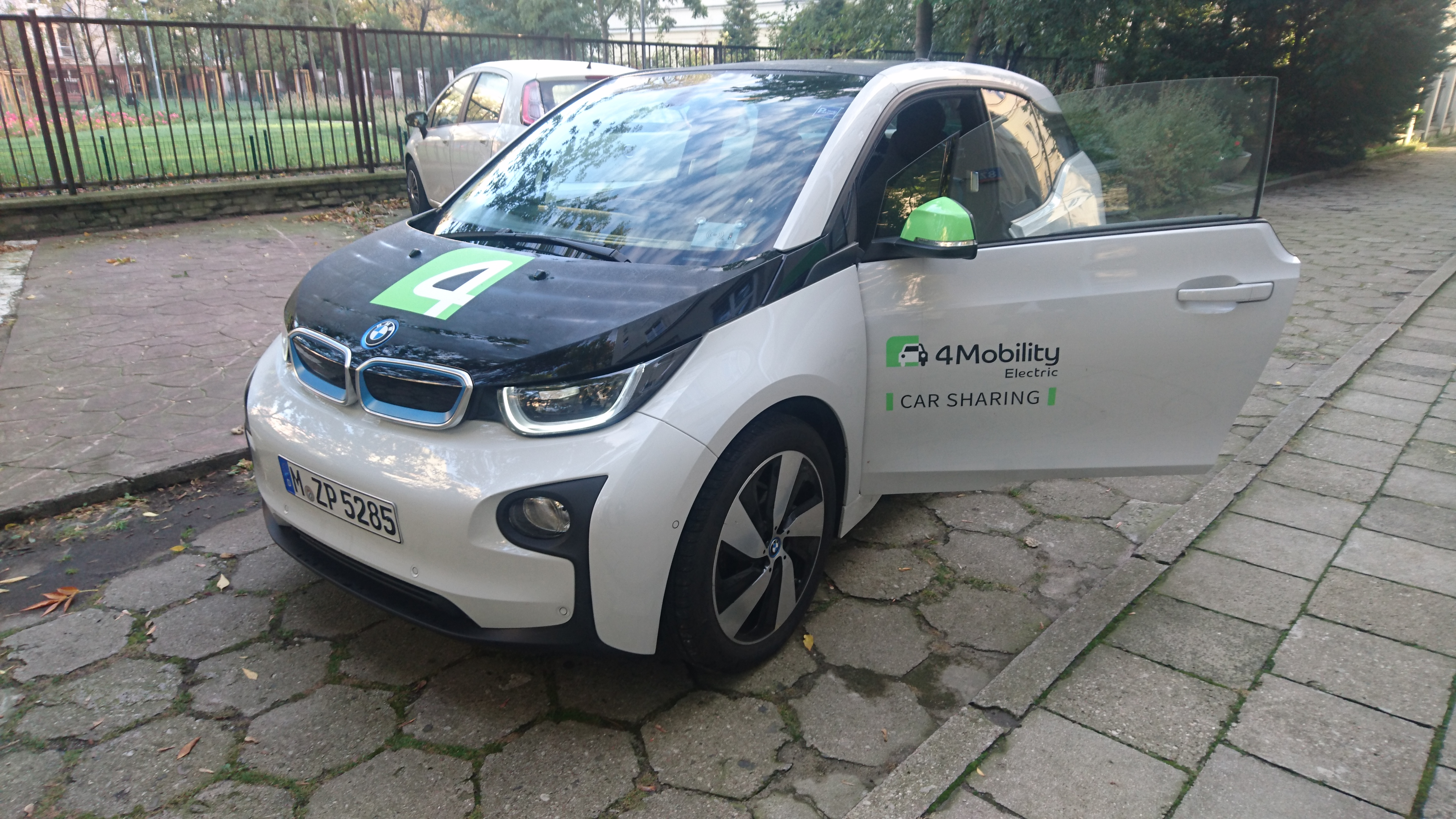 Car sharing 4mobility.pl - electric vehicle BMW i3 in Warsaw